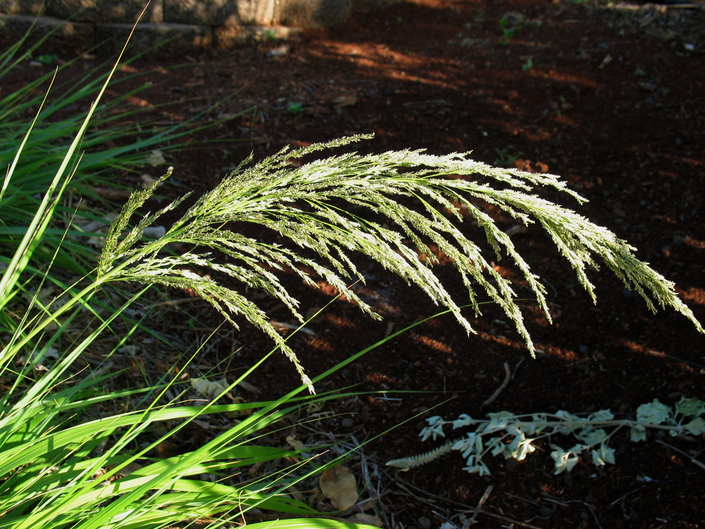 Large Hawaiʻi lovegrass Poaceae (Gramineae) Endemic to the Hawaiian islands Oʻahu (Cultivated)